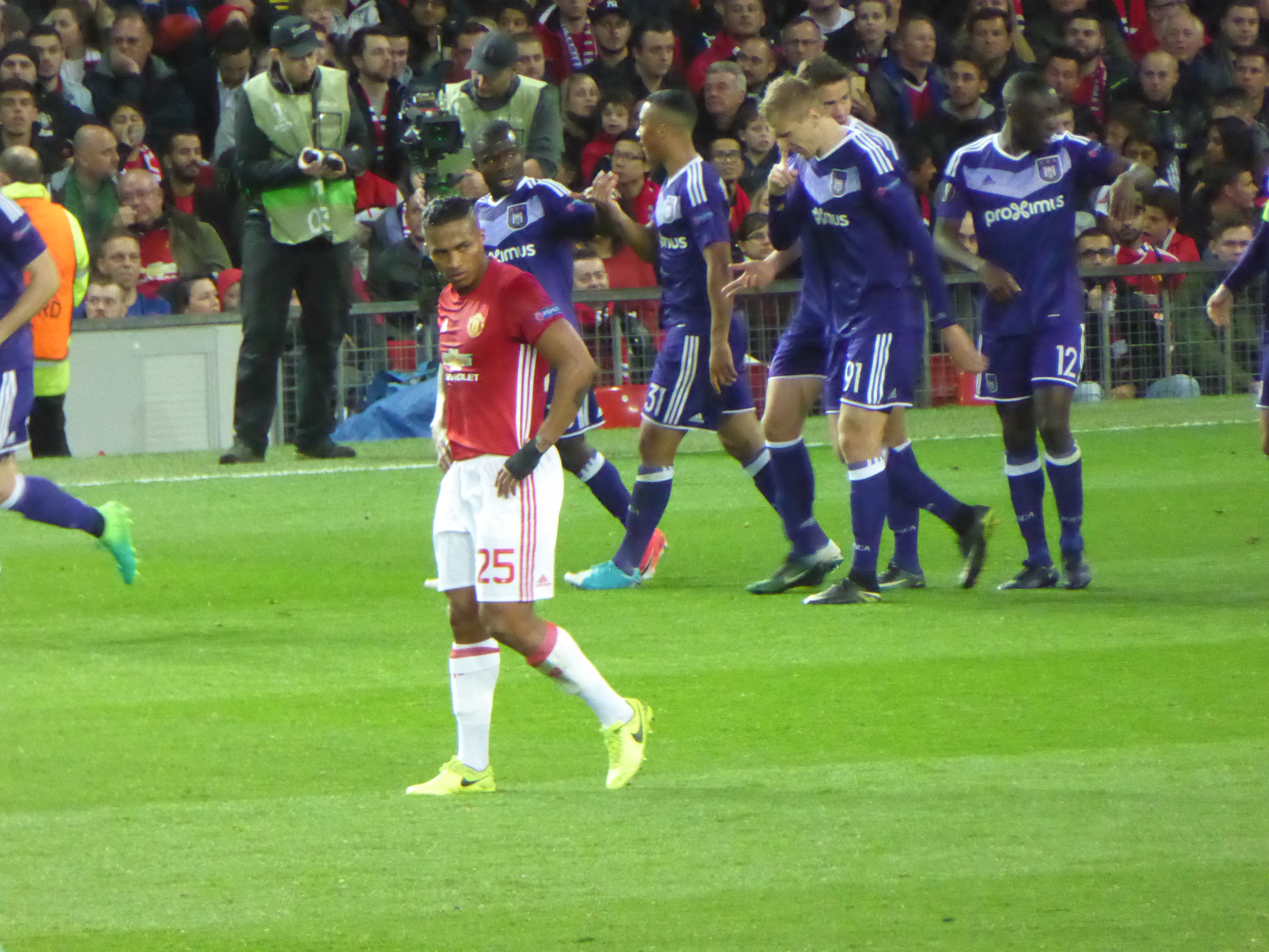 Manchester United v RSC Anderlecht (2-1), UEFA Europa League, Old Trafford, Manchester, Greater Manchester, England 20 April 2017